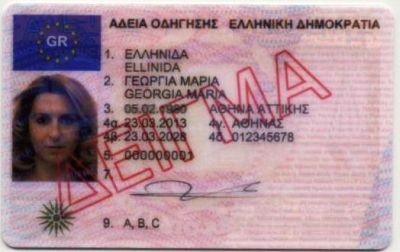 Hellenic Driving Licence